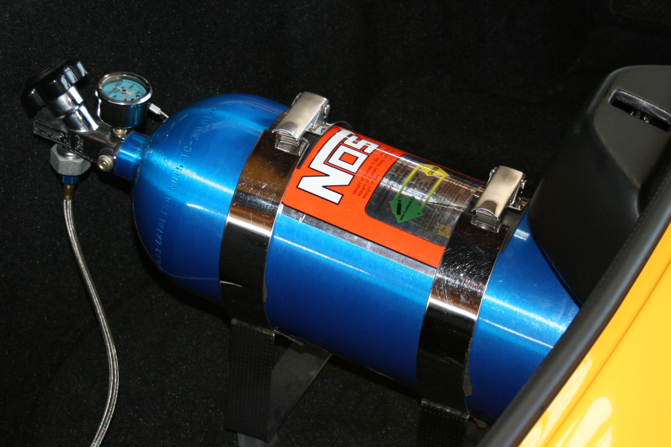 Bottle of NOS